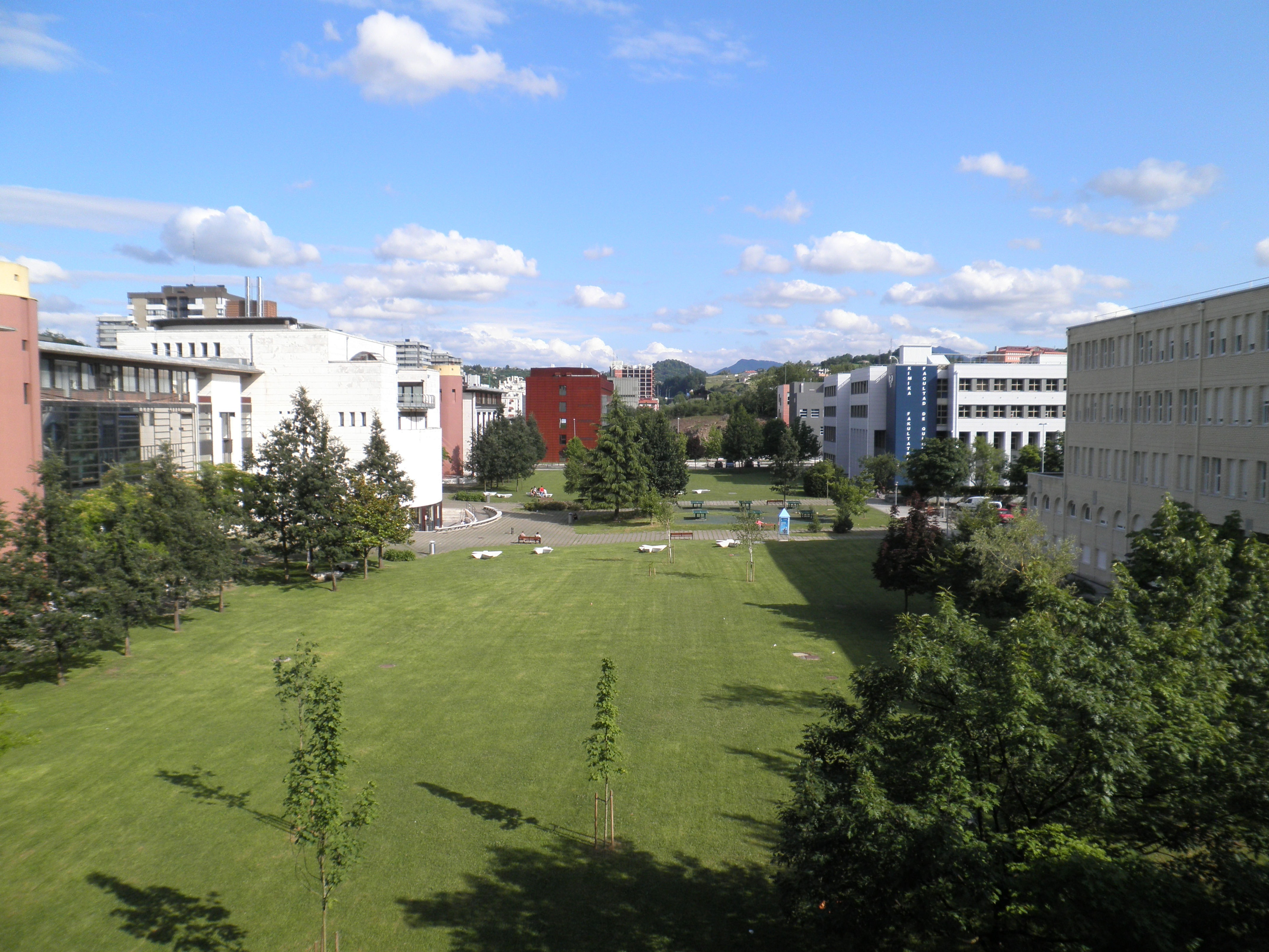 Ibaeta campus in Donostia.